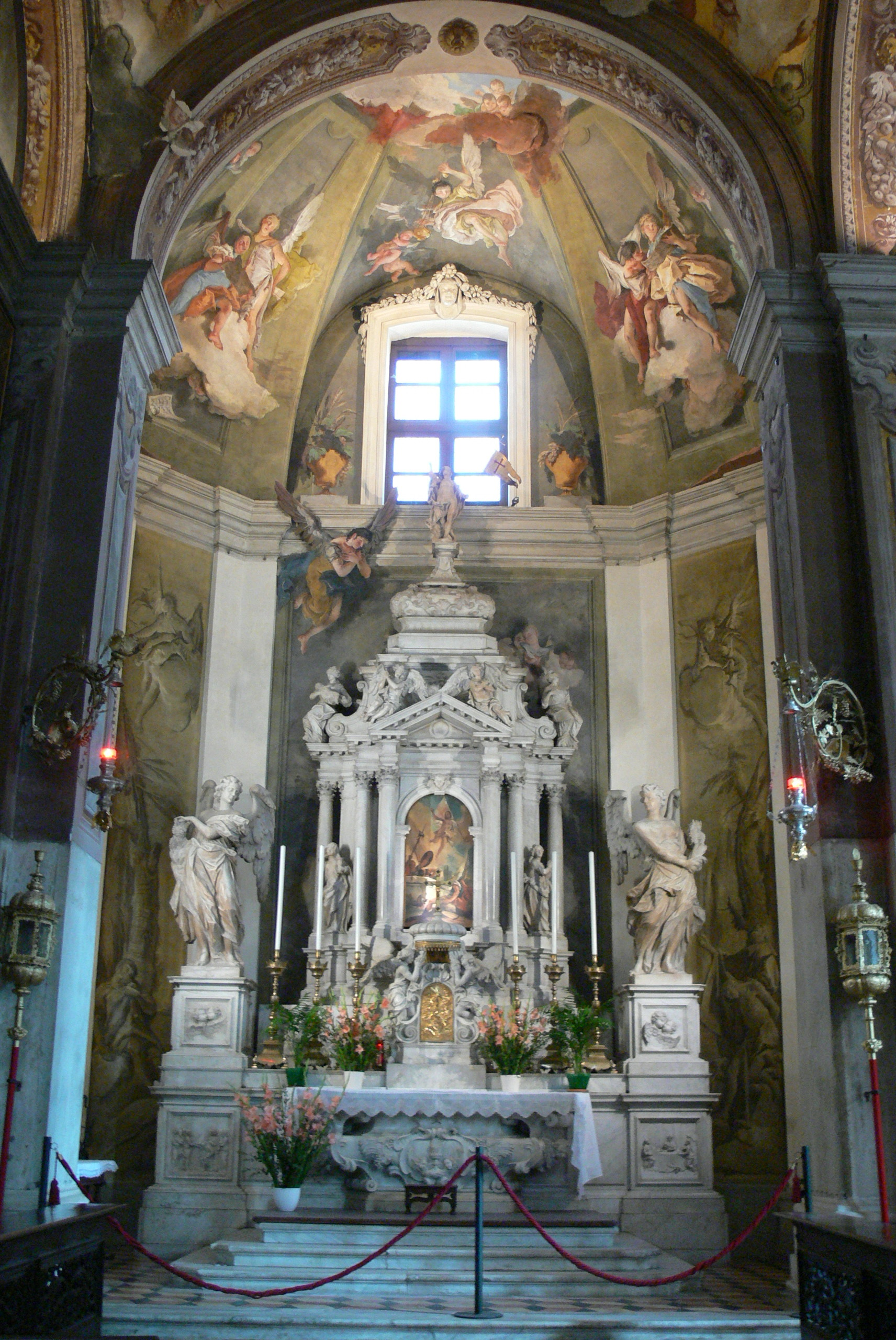 Udine, Italy. Cathedral Santa Maria Annunziata: Eucharist chapel.